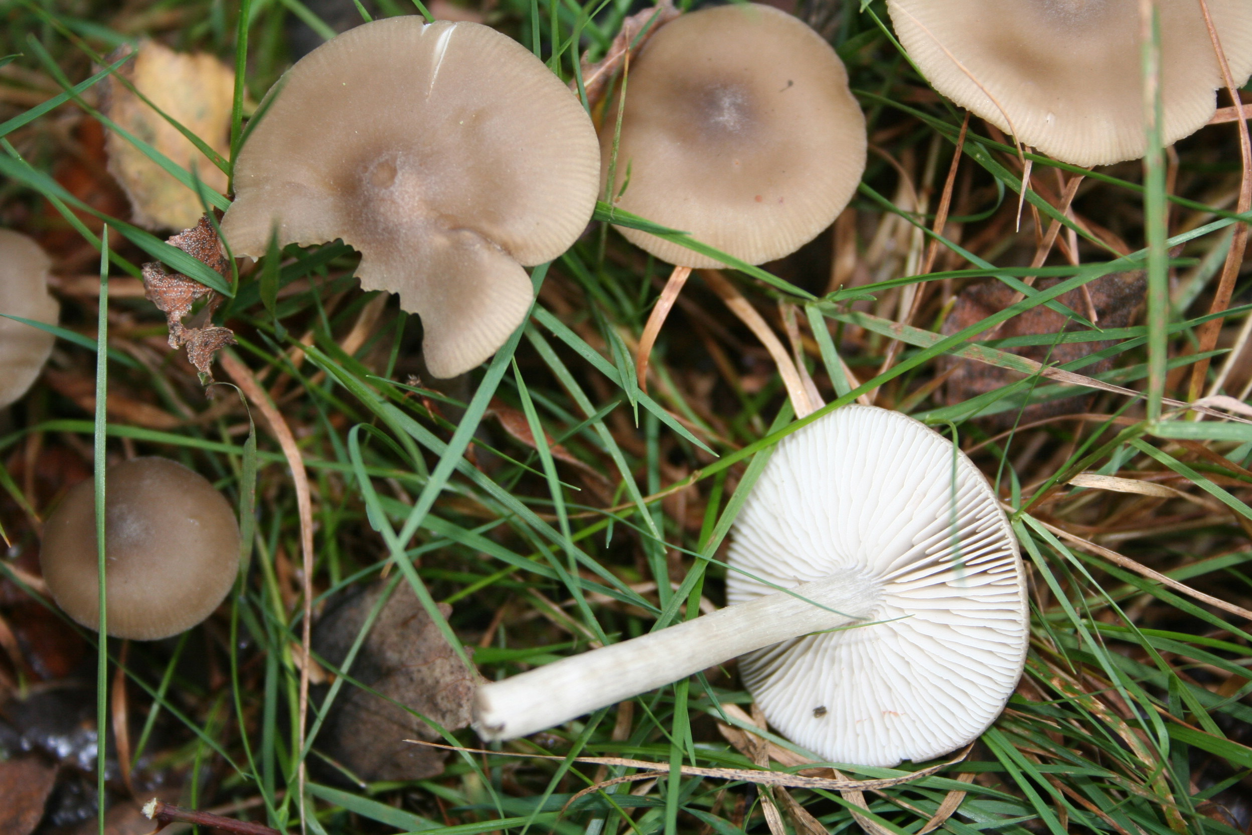 Probably Entoloma sordidulum in a French wood near Fontainebleau. Identification notes: Polyhedral spores, approx. 7 microns, roughly spherical.